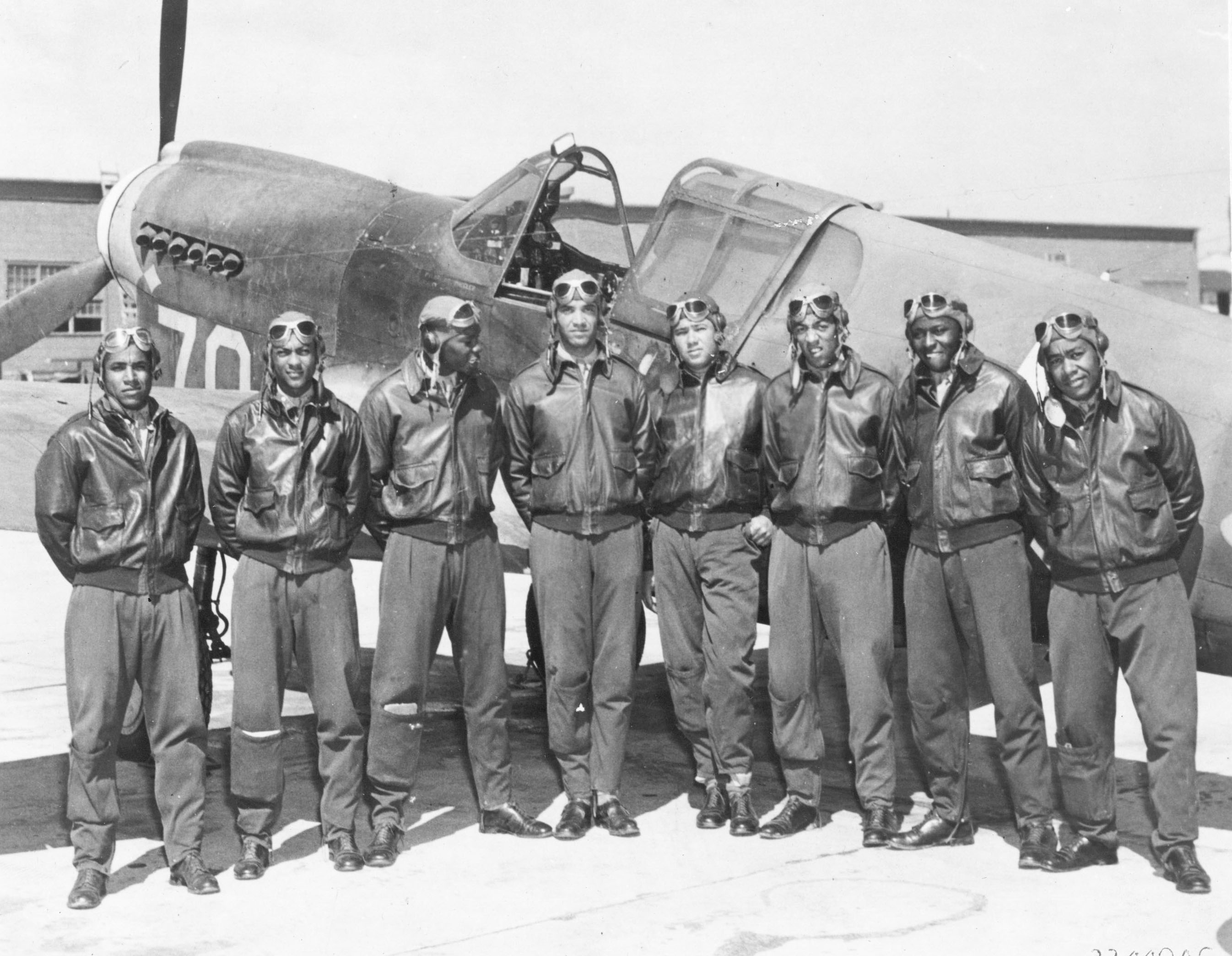 Tuskegee Airmen - Circa May 1942 to Aug 1943 Location unknown, likely Southern Italy or North Africa